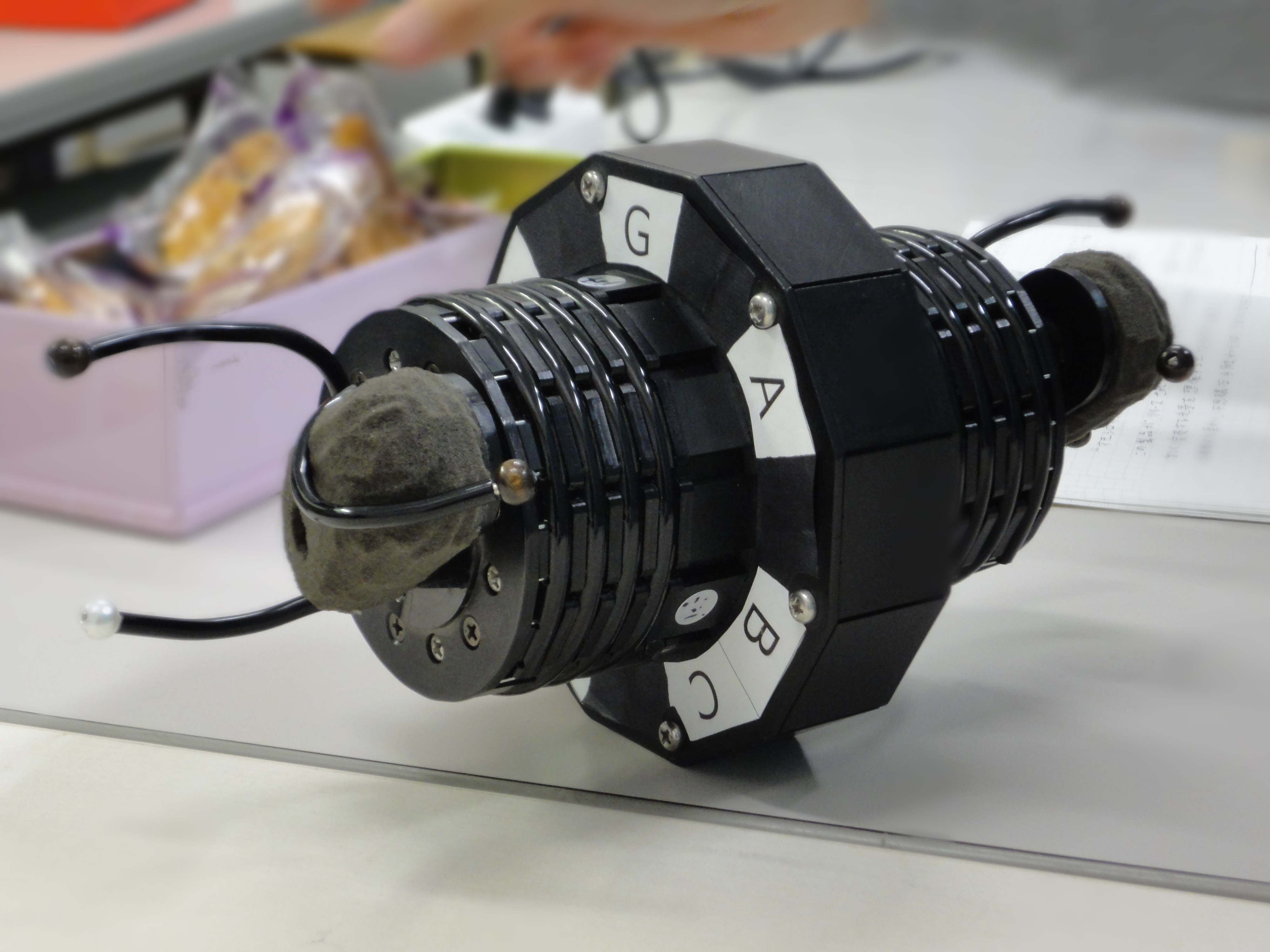 Electronic musical instruments "Udar"